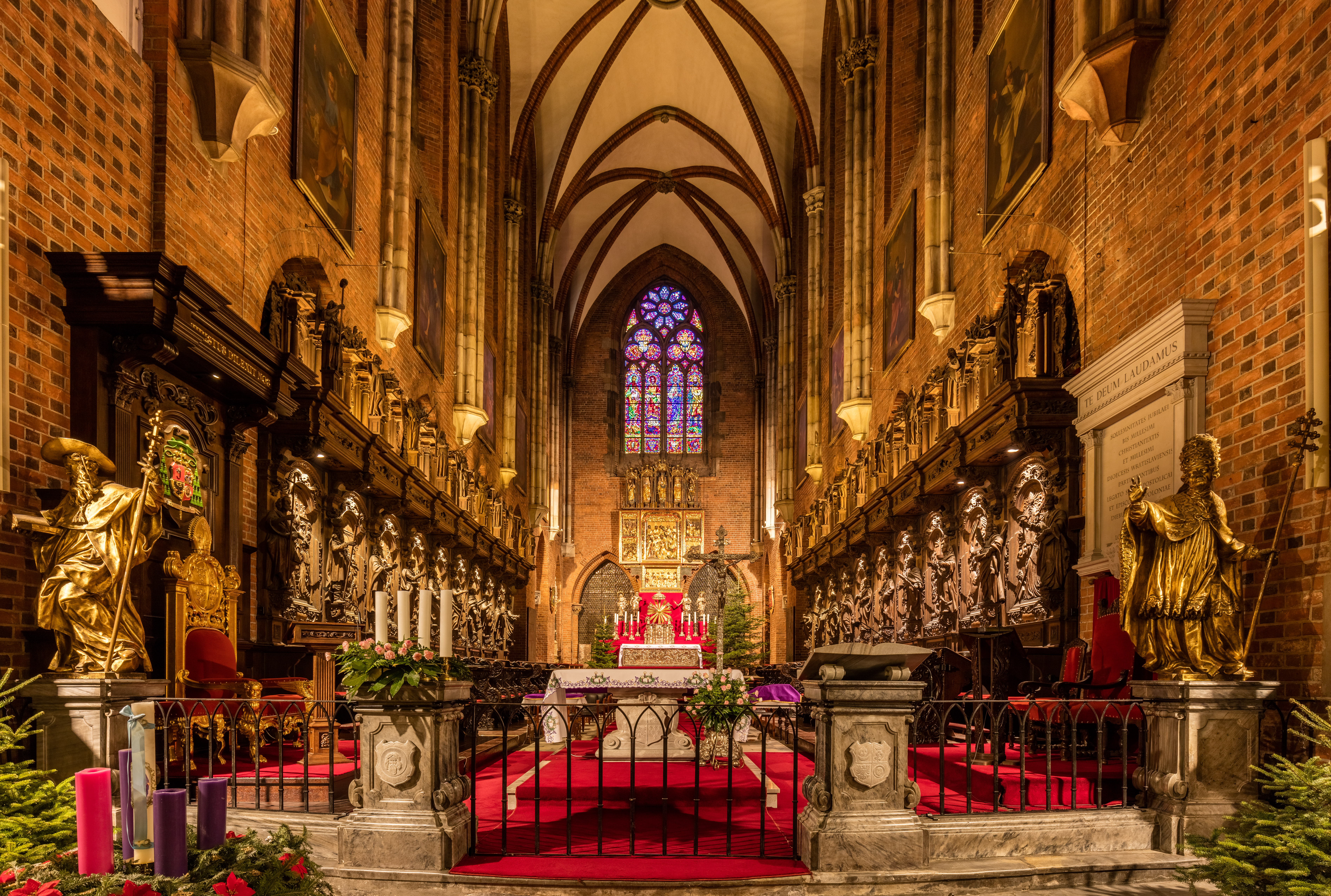 Interior of the Cathedral of St. John the Baptist, better known as "Wrocław Cathedral", Wrocław, Lower Silesian Voivodeship, Poland. The church, of Gothic/Neo-Gothic style, is the fourth church built in the current location between the 10th and 20th centuries.